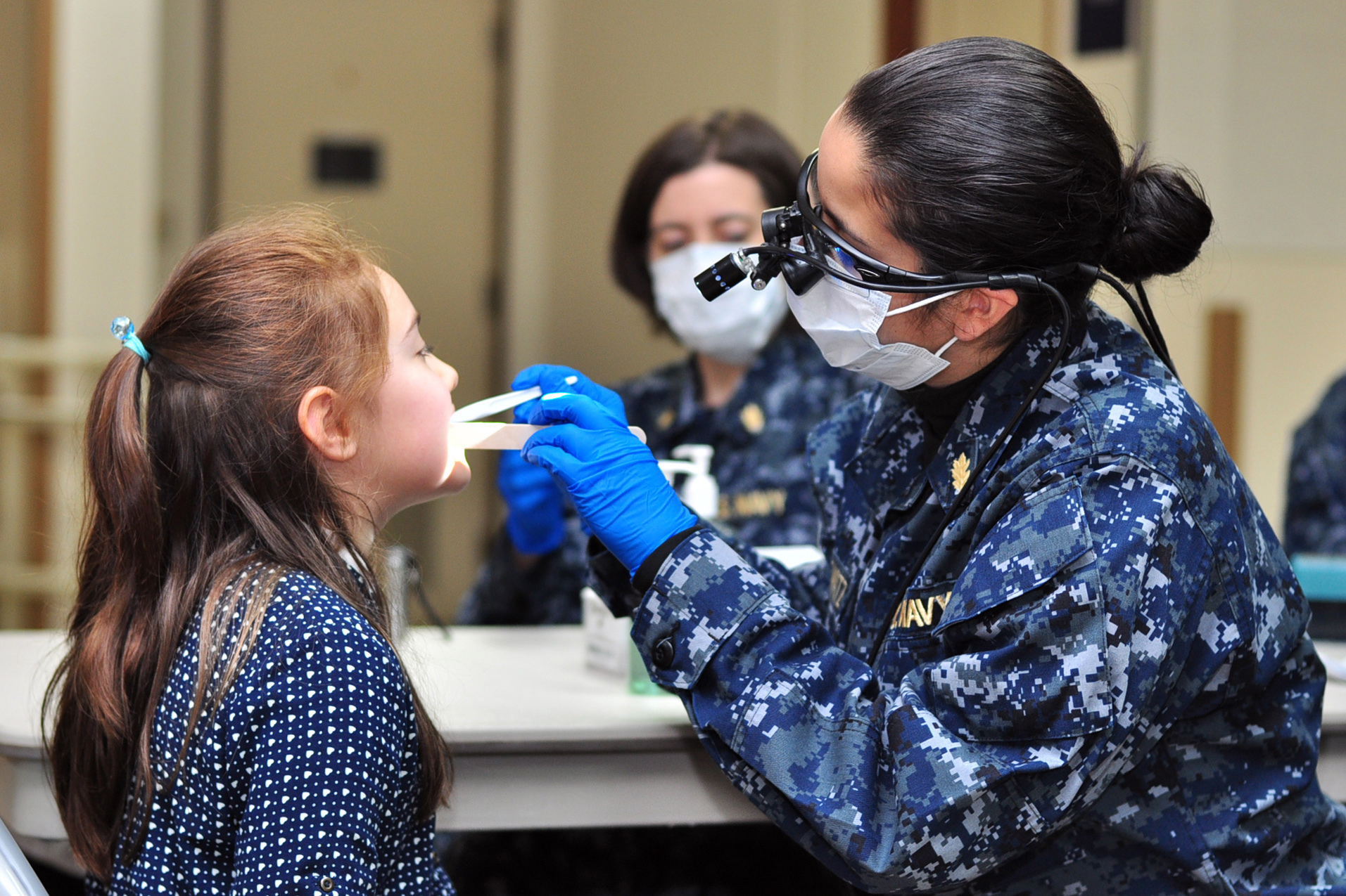 YOKOSUKA, Japan- Lt. Danielle Burkowitz, a dentist assigned to U.S. Naval Hospital, Yokosuka, conducts a basic dental screening on a child at The Sullivan's Elementary School on board Fleet Activities Yokosuka, Feb. 18. The screening is part of a monthlong initiative, in support of dental health month, where staff members from USNH Yokosuka's dental department take their practice to schools on base to stress the importance of practicing good oral hygiene.